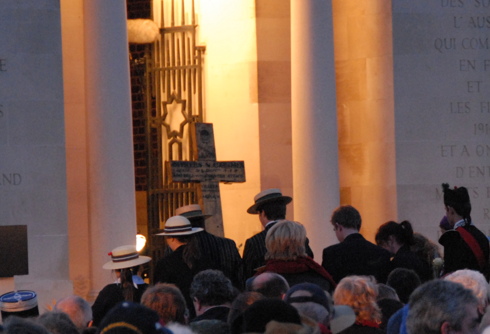 Villers Bretonneux Anzac Day 2008 Dawn Service